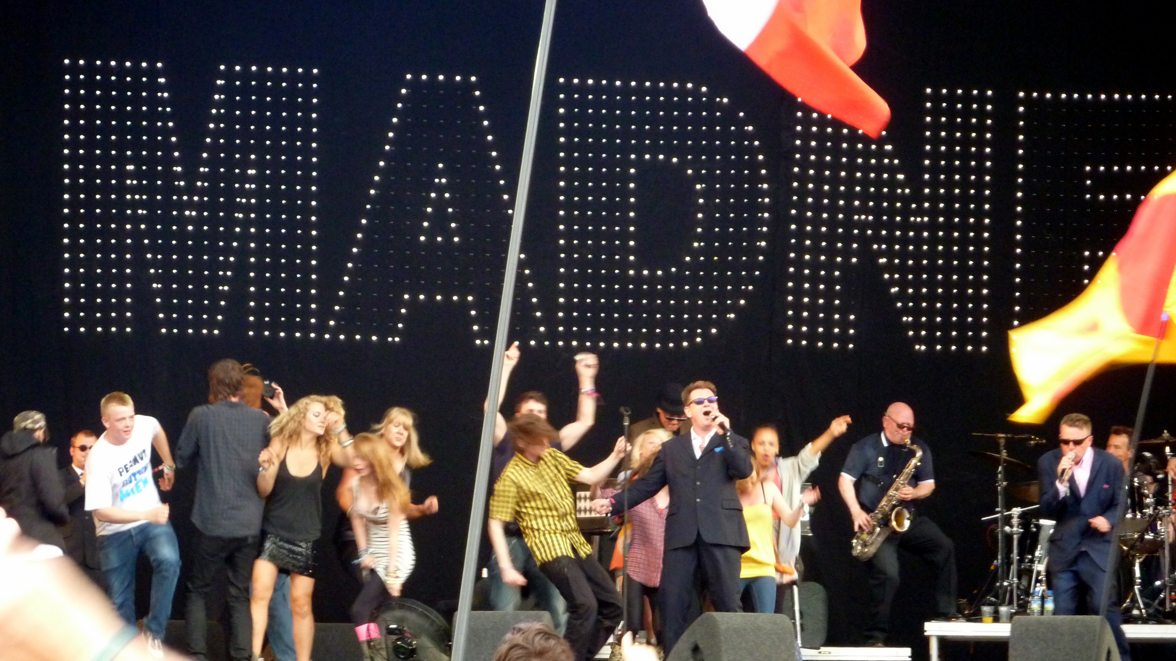 Madness in concert